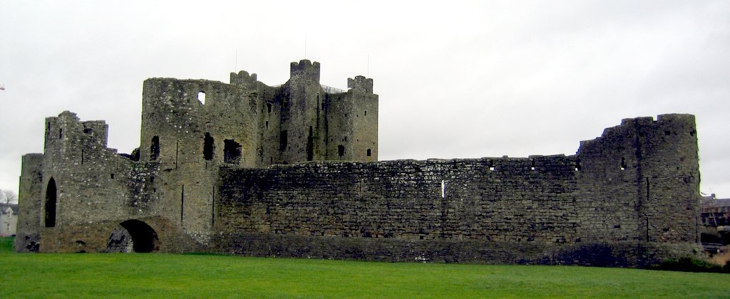 Trim Castle (Dublin side). Author: Sean Munson